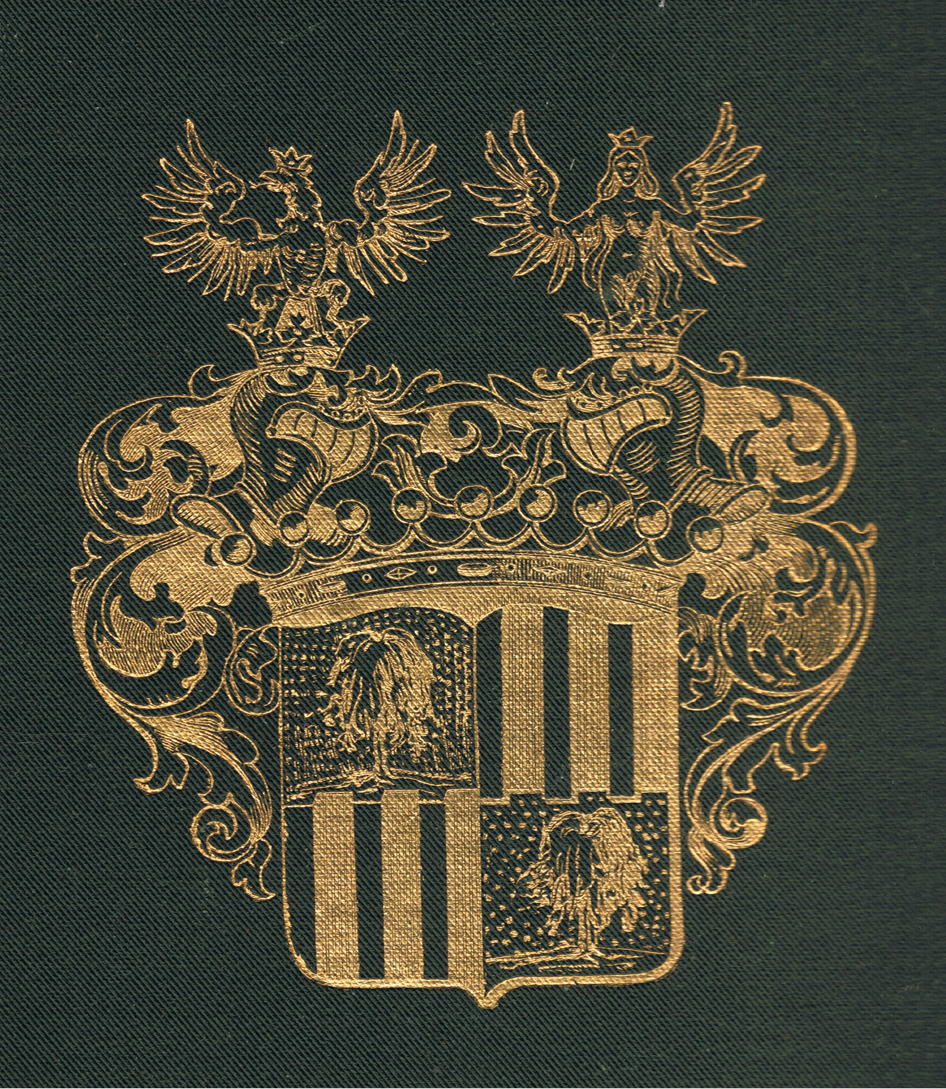 Scan (by me, R. de Salis, Rodolph (talk)) of my own book, Shield & crests & count's coronet of Johann Gaudenz v Salis-Seewis: Salis-Seewis impaling Salis-Bothmar, from the cover of the 1889 biography of the poet by Adolf Frey.